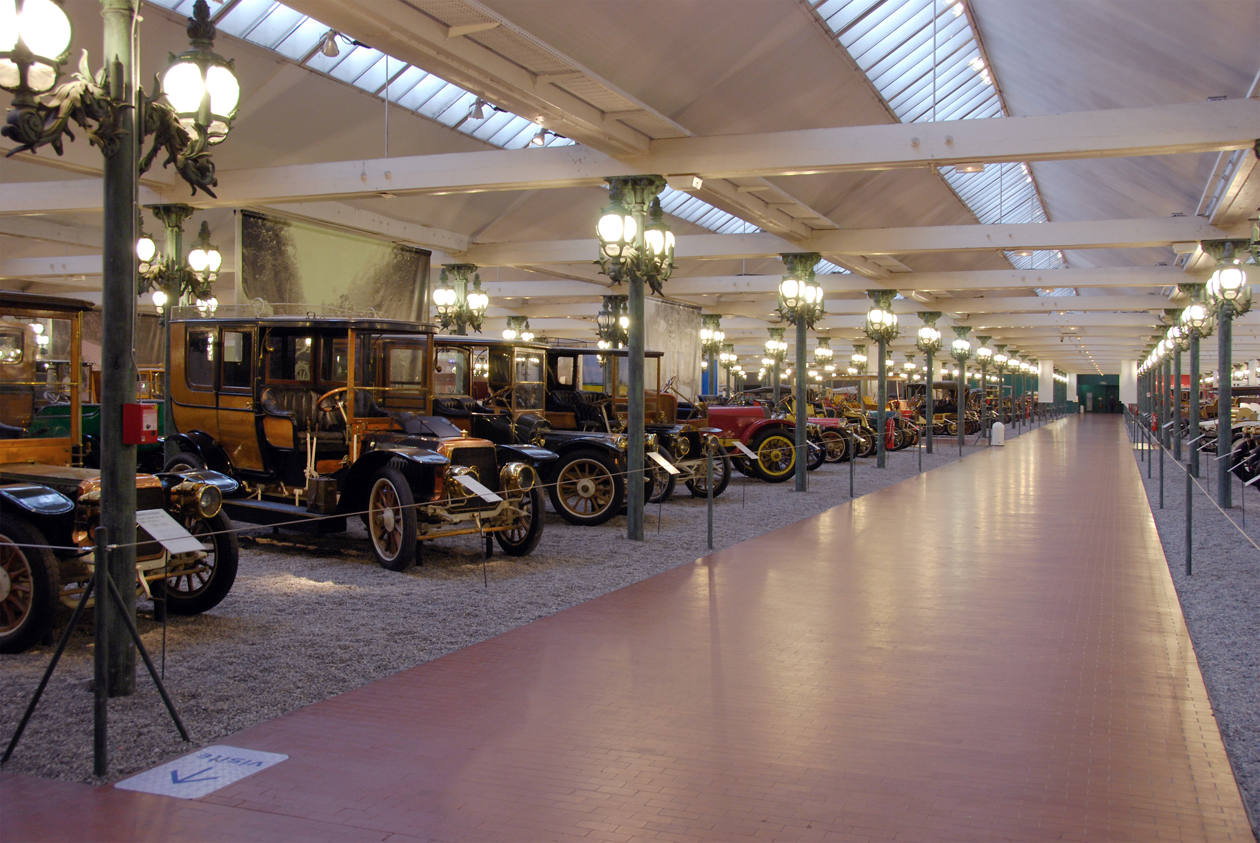 One of the aisles in the 17.000 m² main hall of La Cité de l'Automobile, Musée national de l'automobile, Collection Schlumpf in Mulhouse, France.